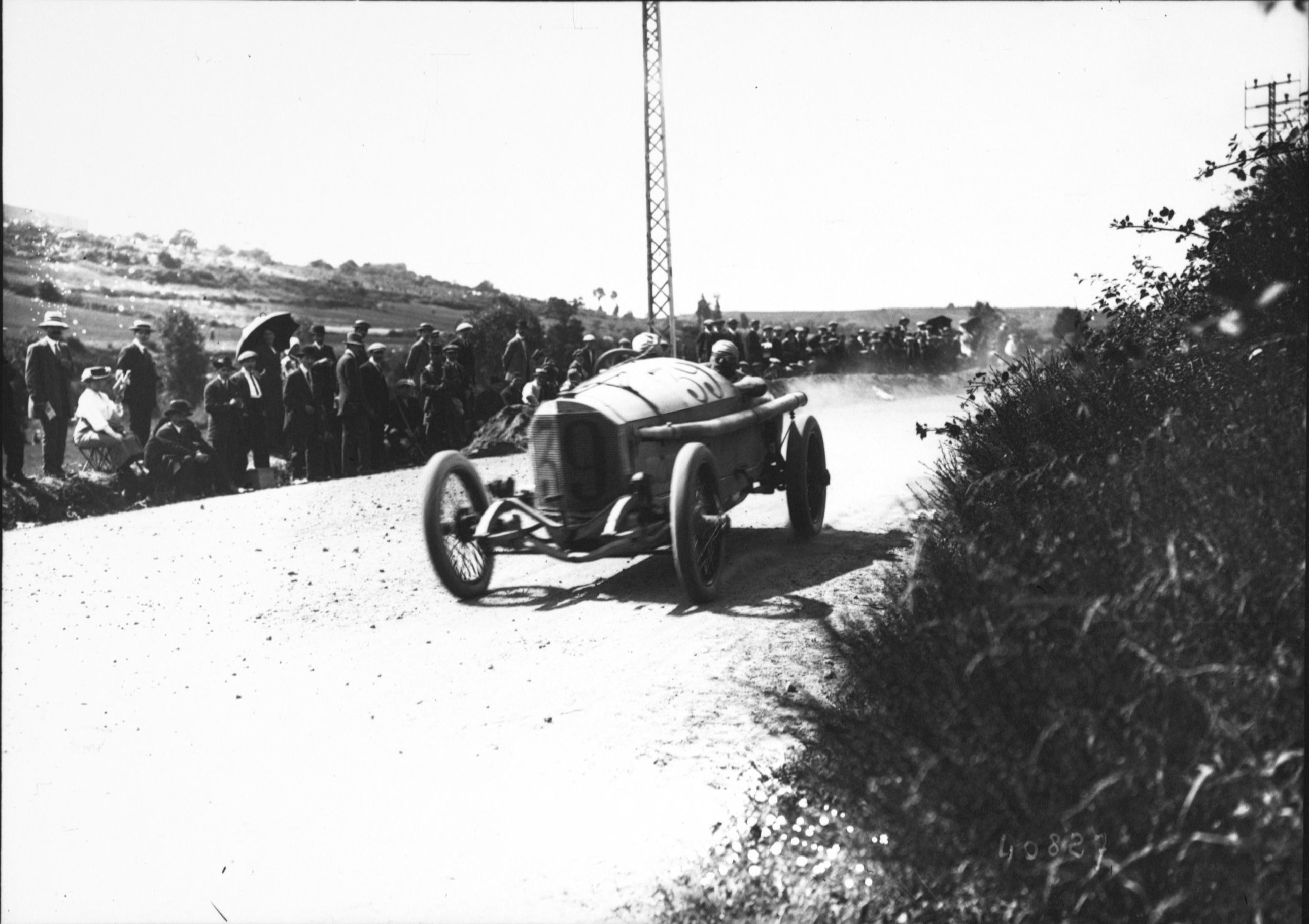 Otto Salzer at the 1914 French Grand Prix